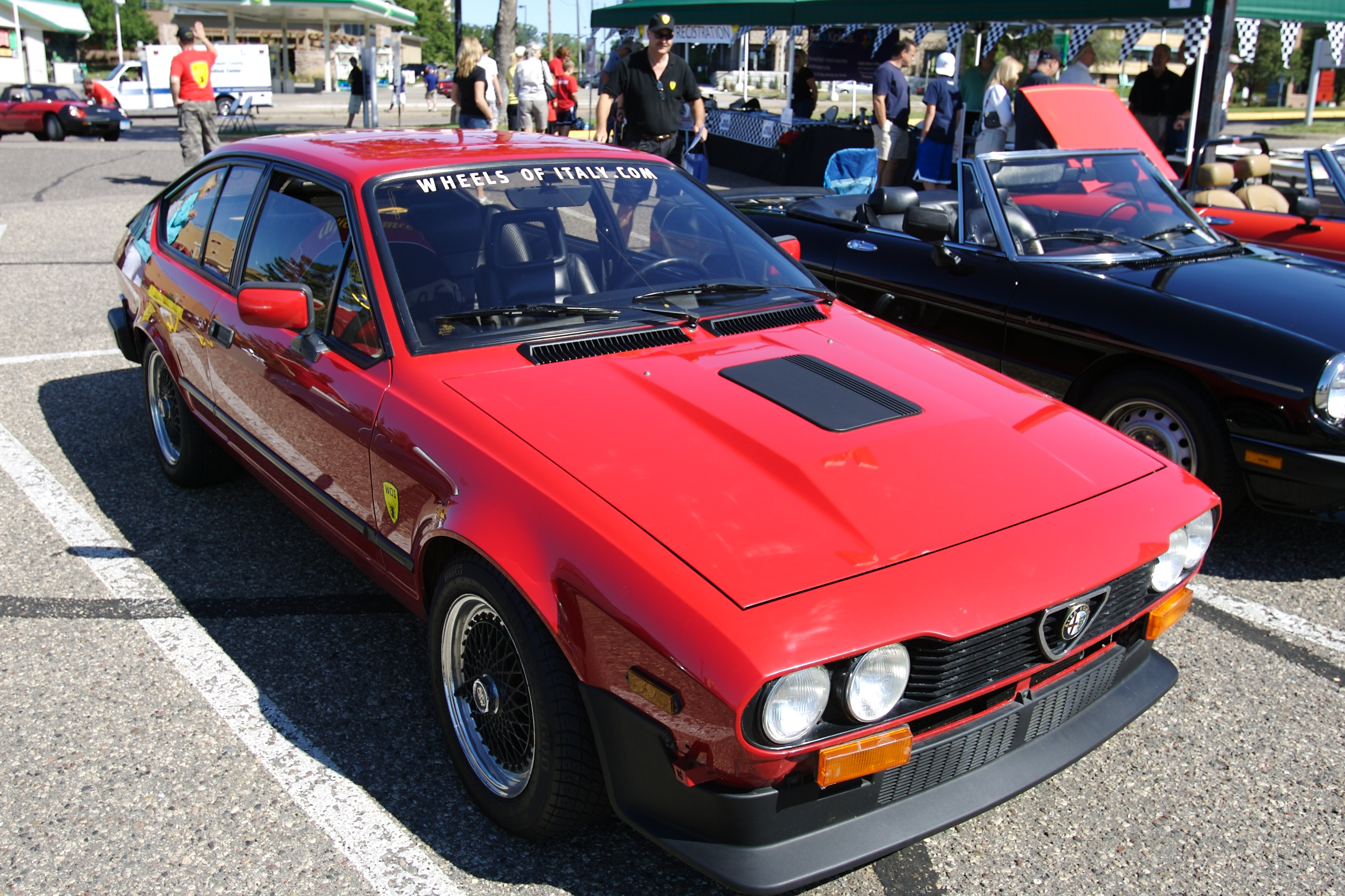 Phill's Alfa Romeo GTV. Photo by MJDPhotography